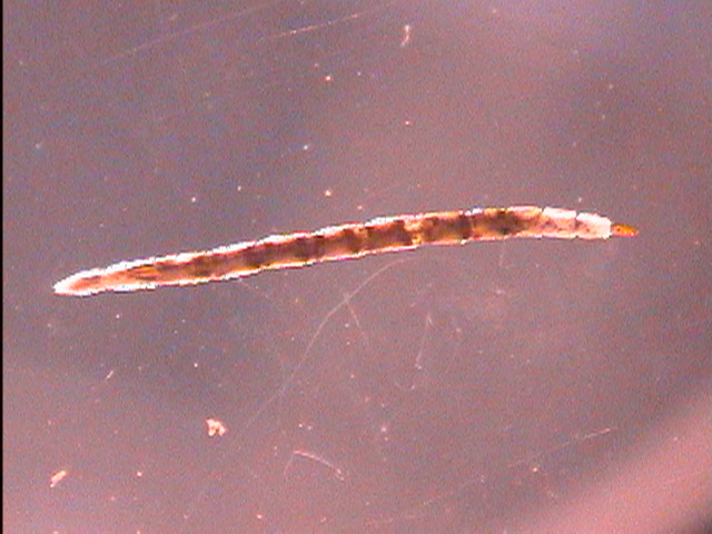 O: Diptera F: Ceratopogonidae